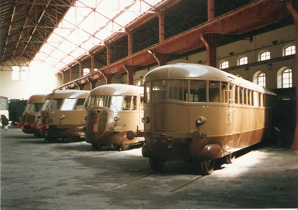 Diesel railcars FS in Pietrarsa museum